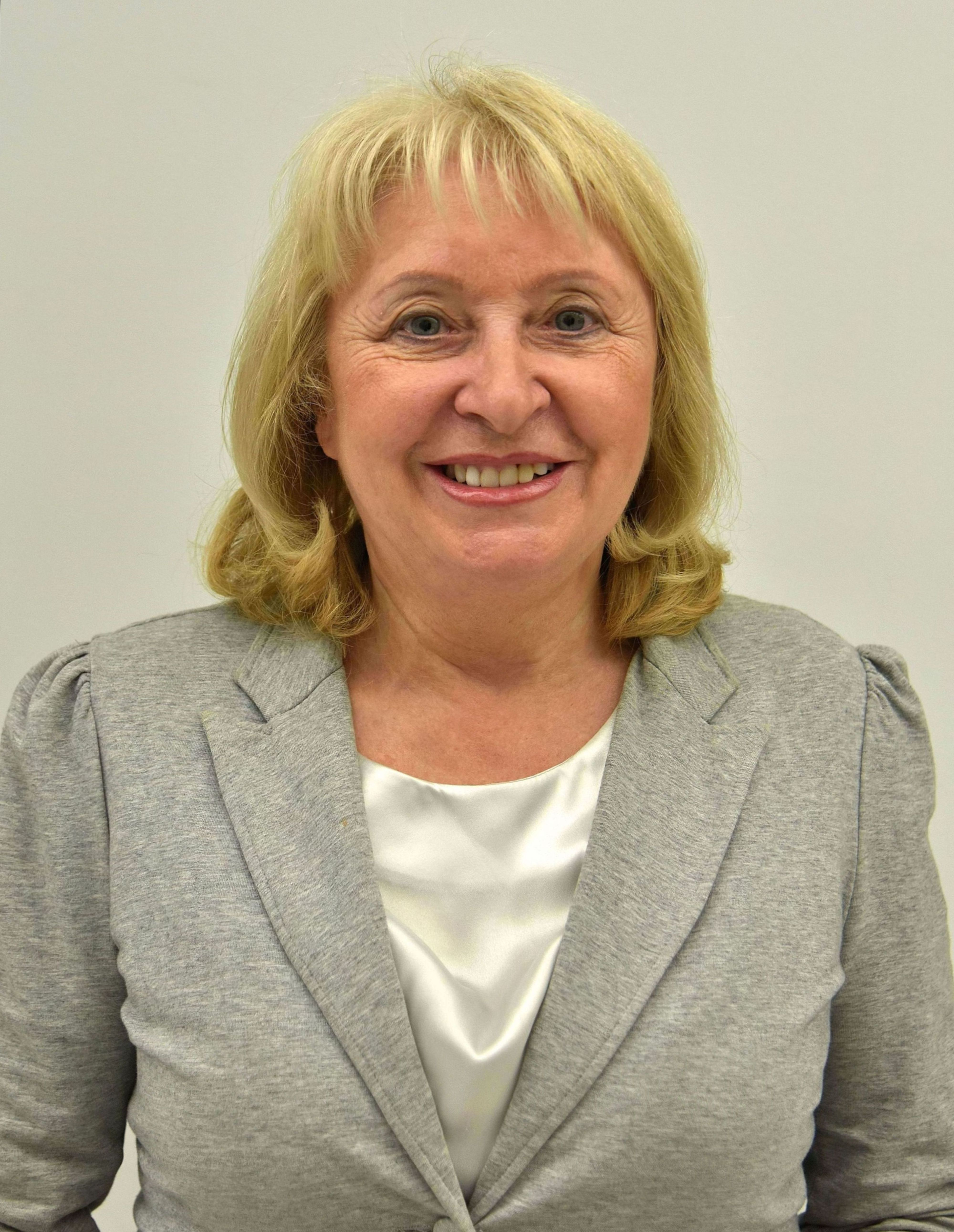 Polish MP Jolanta Hibner in the Sejm